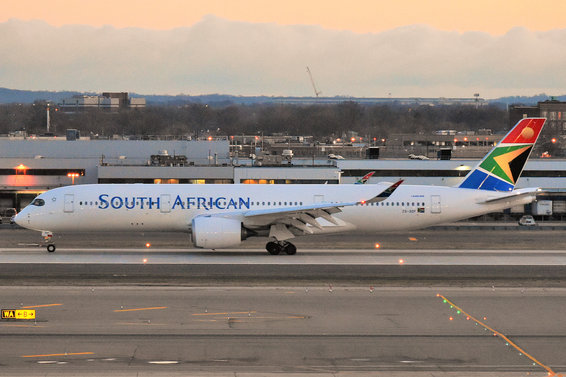 Operating Flight SA203, a South African Airways Airbus A350-900XWB has landed on Runway 31R at John F. Kennedy International Airport, just before sunrise.